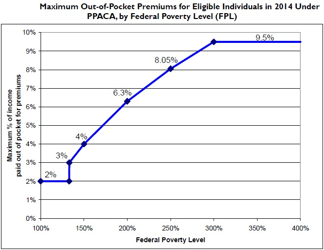 Maximum Out-of-Pocket Premiums for Eligible Individuals in 2014 Under PPACA